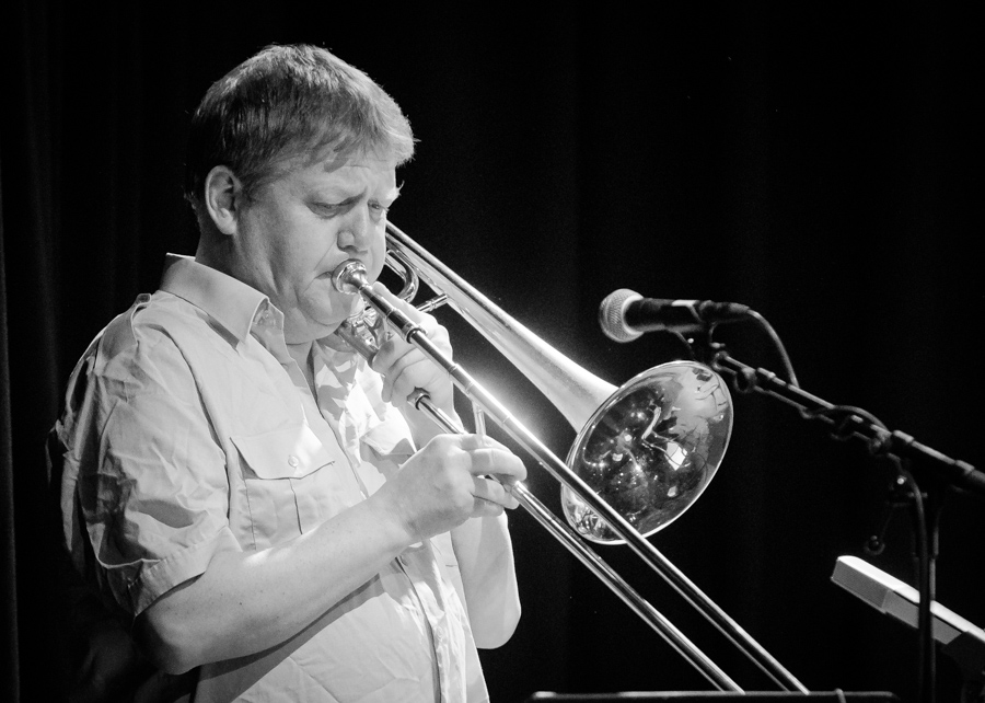 Lars Erik Gudim with The Jungleboys at Cosmopolite. The concert took place on 06. January 2018 in Oslo. Lineup: Bernhard Seland (saxophone and vocal), Jørgen Gjerde (trombone and vocal), Lars Erik Gudim (trombone and vocal), Jon Rørmark (bass guitar and vocal), Vidar Løvstad (guitar and vocal), Lars Opedal (drums and vocal) and José Aris Cruz Impertinenza (lyrics).